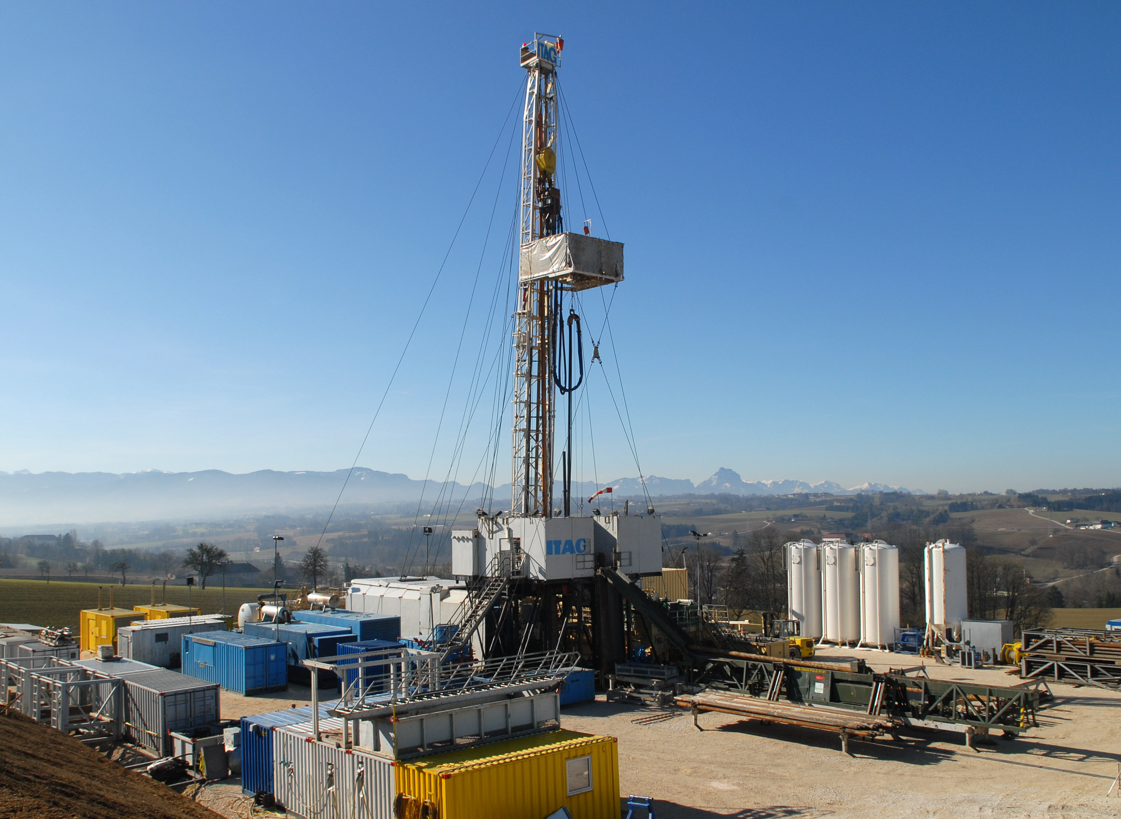 Drilling rig at the oil field of Voitsdorf in Upper Austria